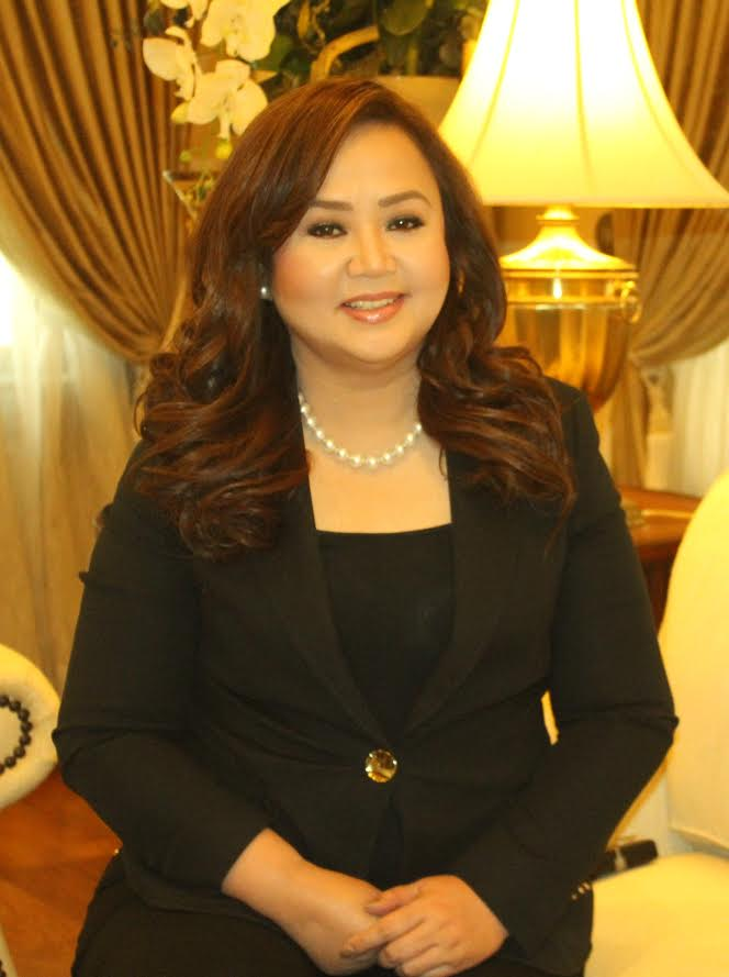 Alice Eduardo, Founder of Sta. Elena Construction and Development Corporation